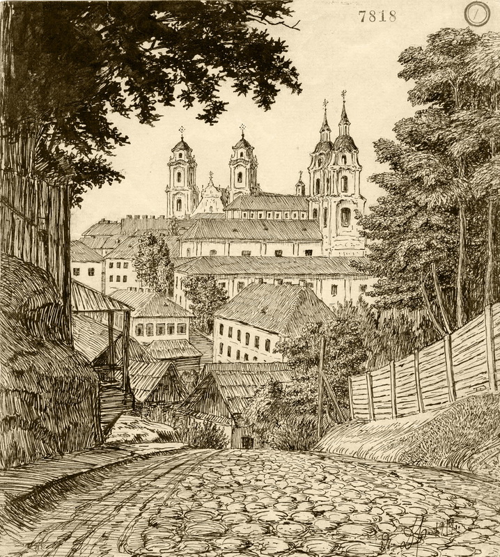 View of Vysokaje Miesta in Miensk, Jazep Drazdovič